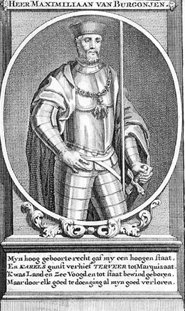 Maximilian of Burgundy as depicted in 1715